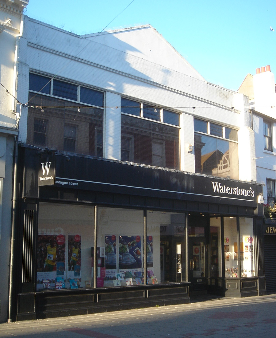 Former Montague Street Tabernacle Chapel, Worthing, West Sussex, England. Built in 1839, and had a multitude of secular and religious uses until 1906. It is now a shop.